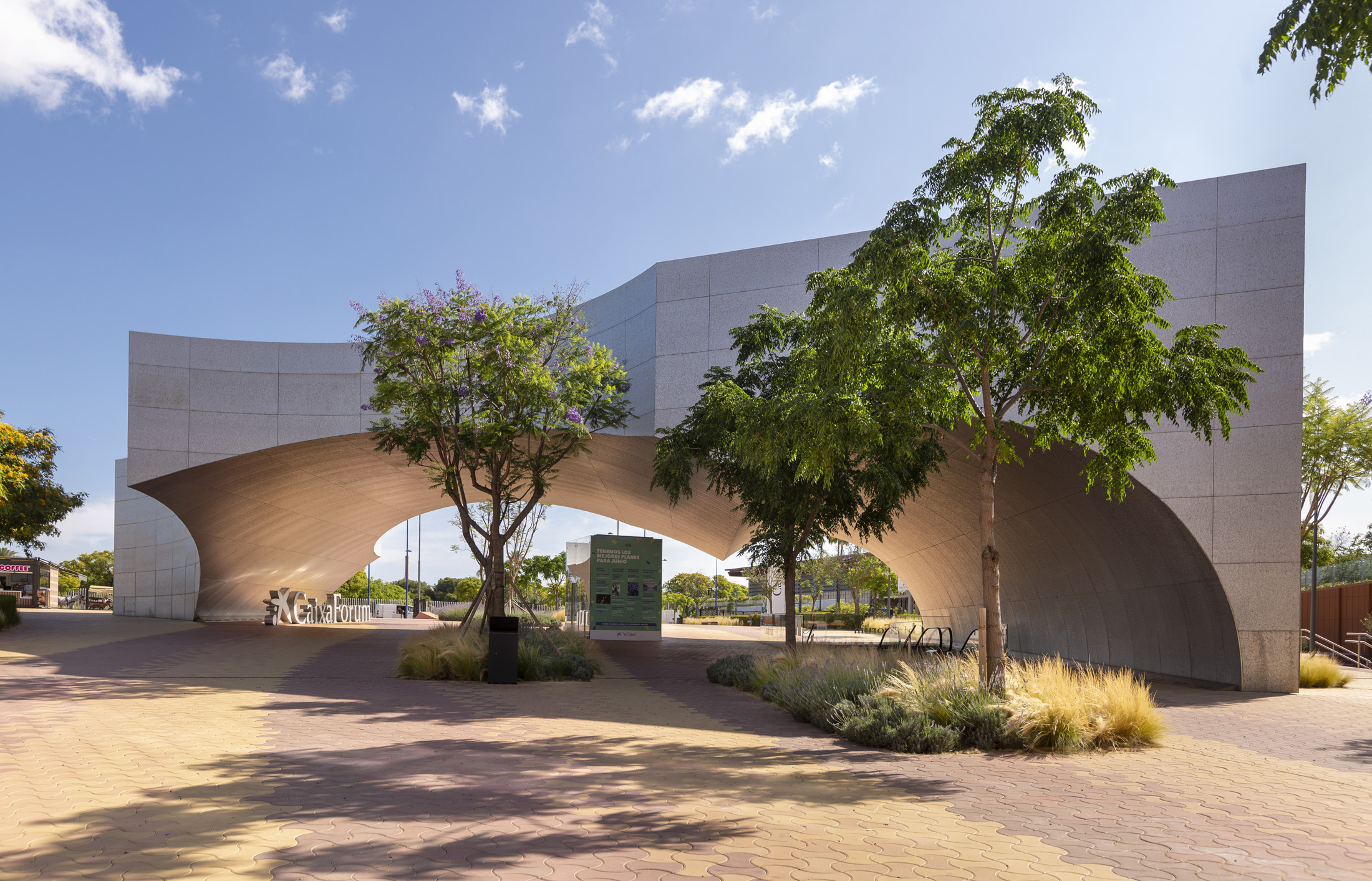 fotografia de Anna Elias Tf.0034 600427541